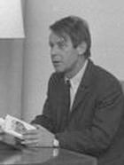 German writer Siegfried Lenz